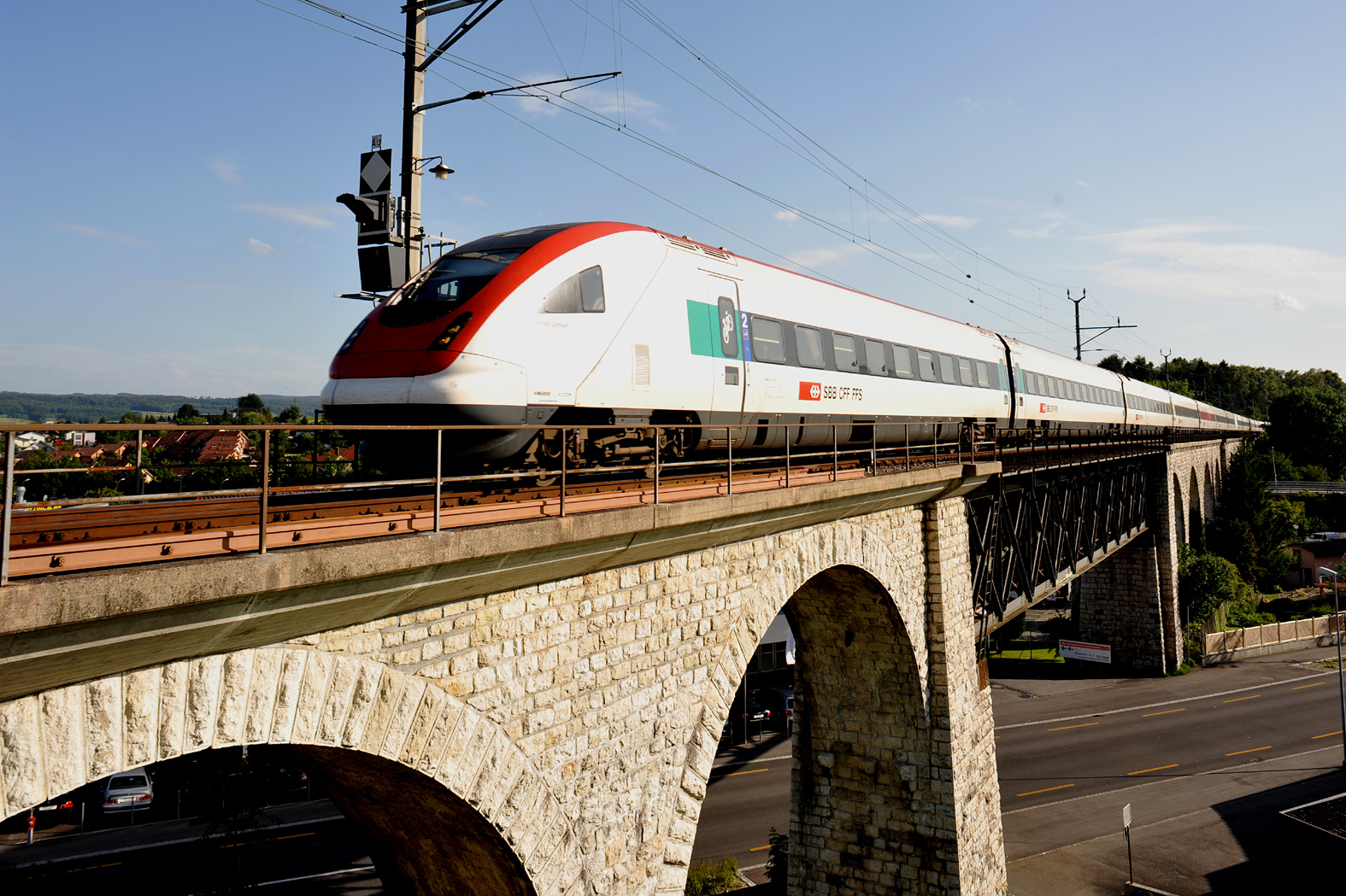 Mösli viaduct of the BLS near railway station Grenchen north; Solothurn, Switzerland.